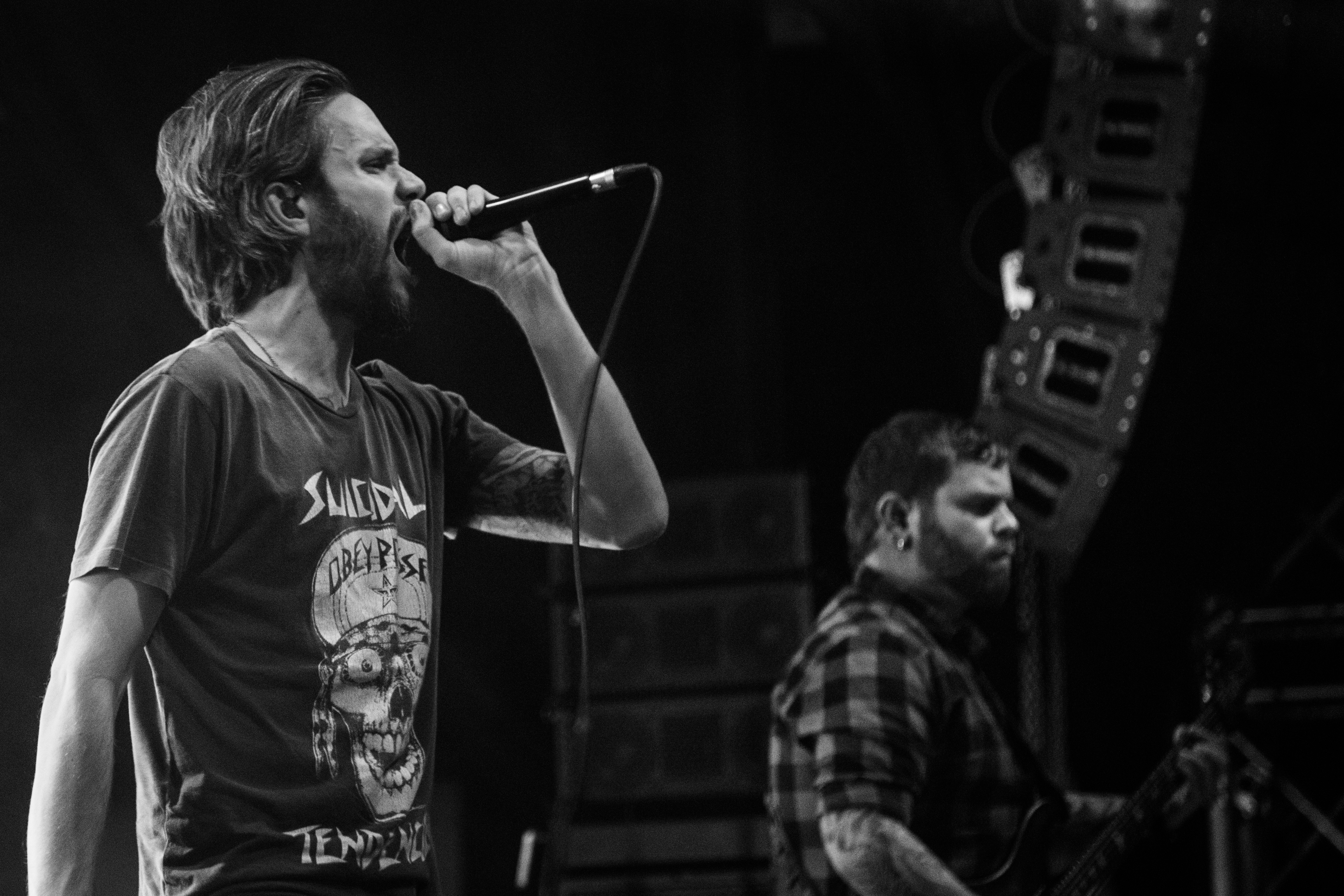 Between the Buried and Me performing live at Euroblast Festival 2015, Cologne, Germany